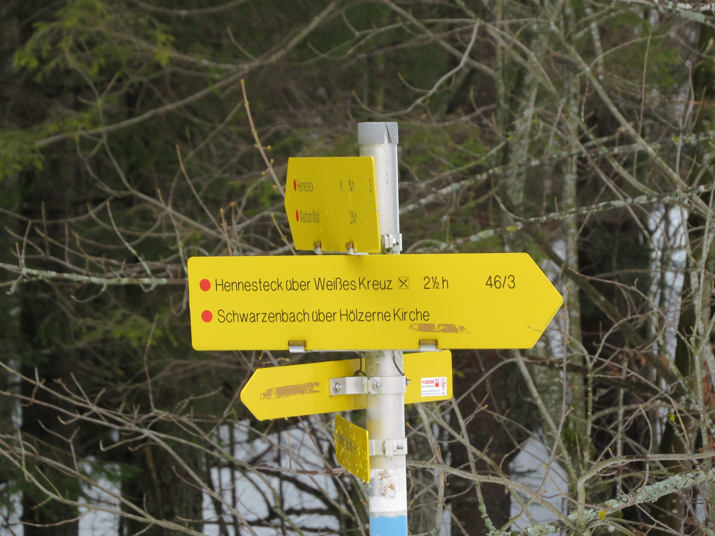 Fingerposts in Annaberg, Lower Austria